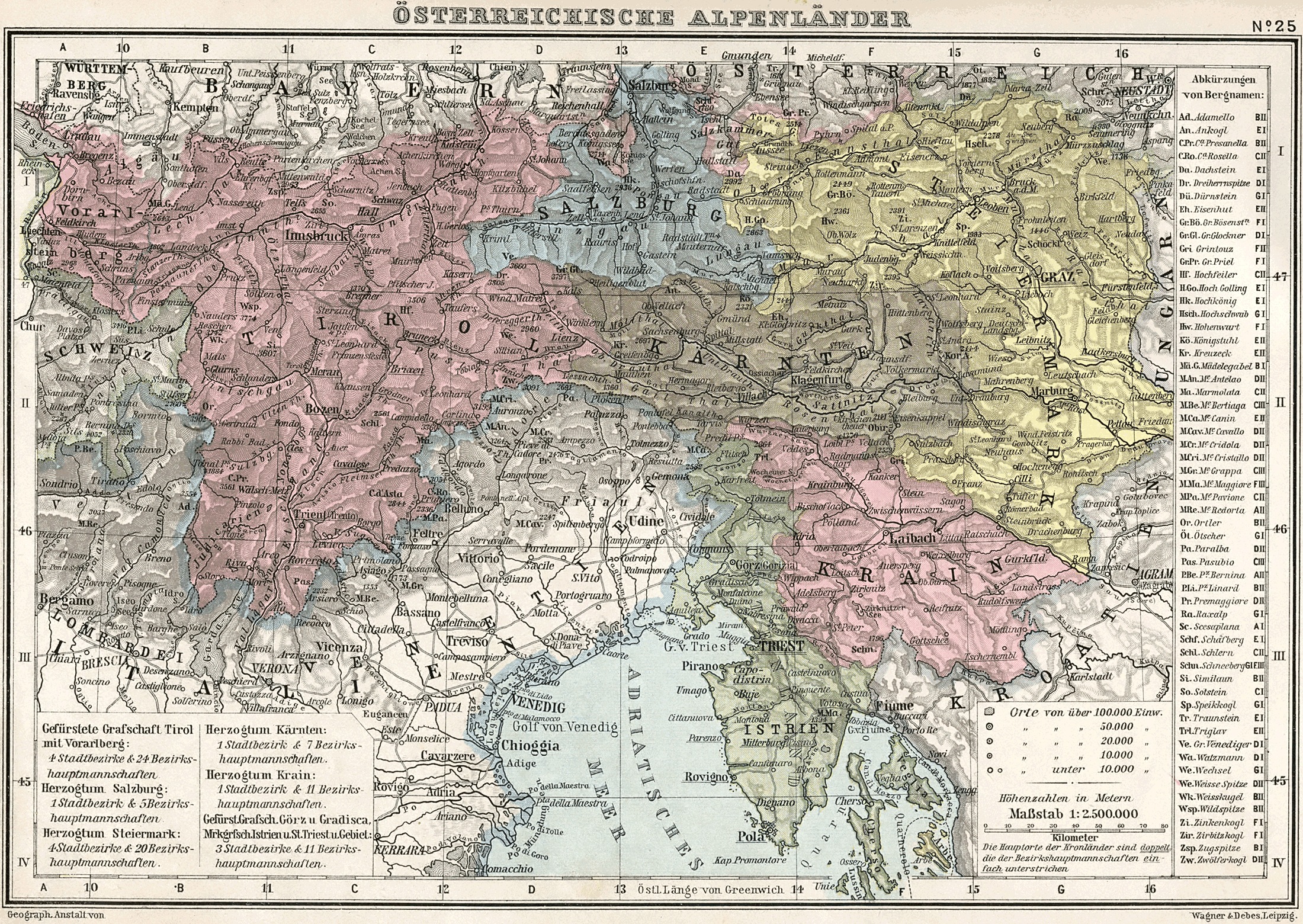 Historical map of Austria (Alps)